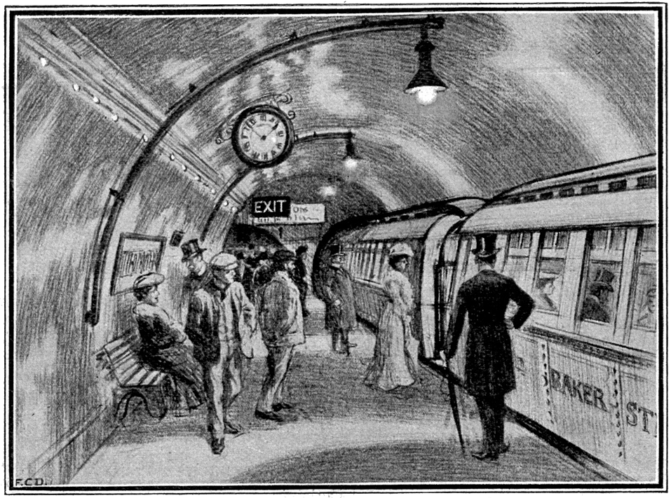 View of a platform on the Baker Street and Waterloo Railway in its first week of opening